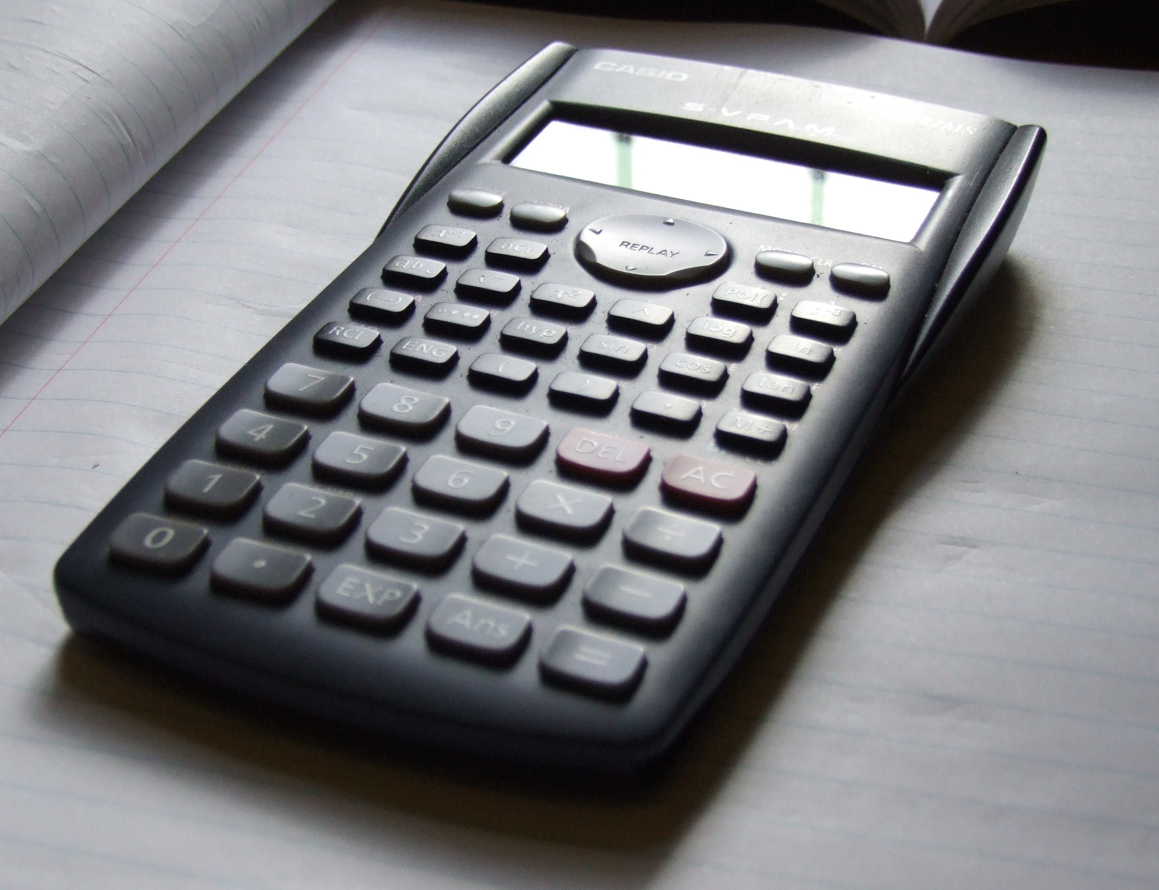 Picture of the Casio fx-82MS calculator from an angle. Used a Fujifilm FinePix S9500.